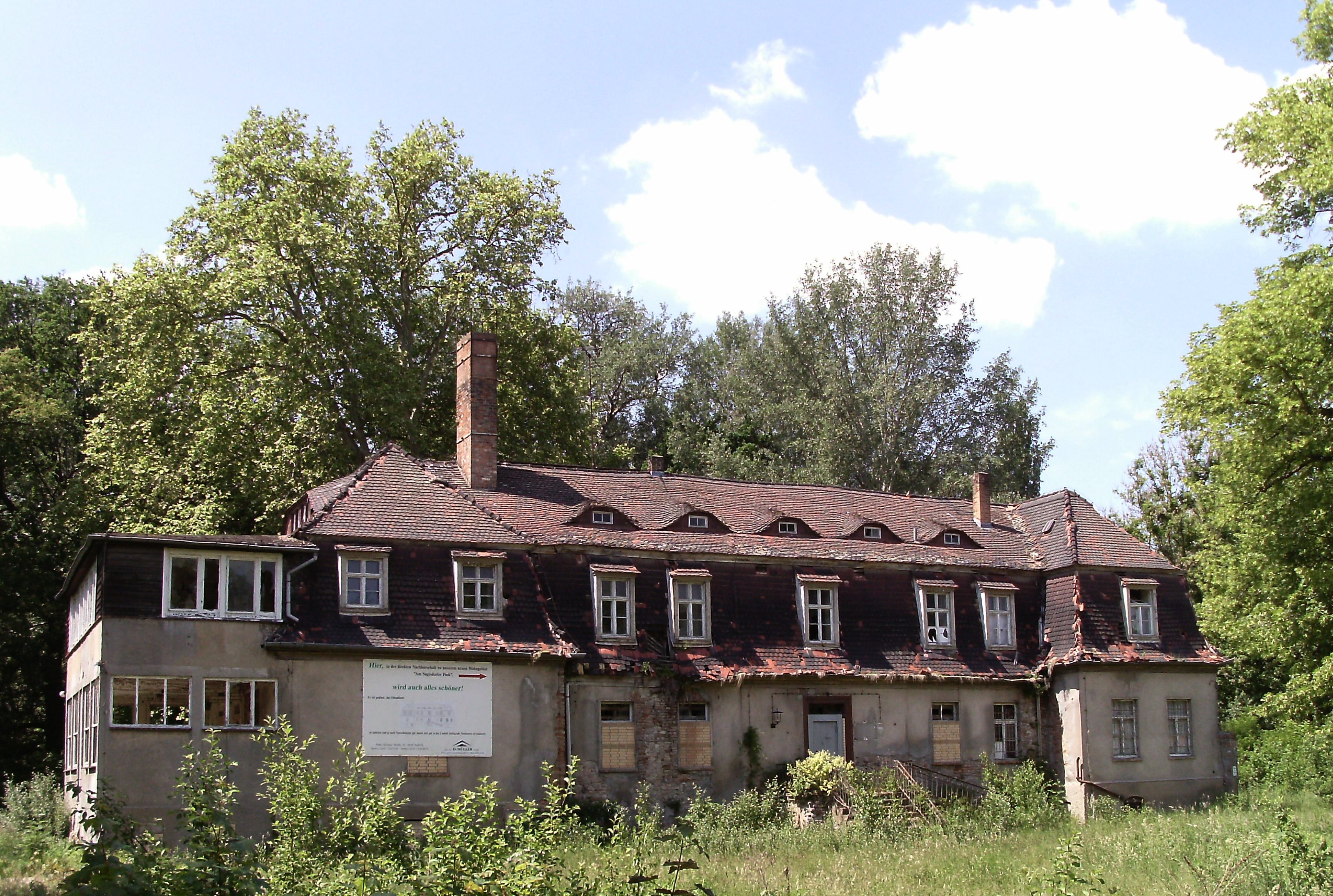 Sagisdorf manor house (Reideburg, Halle/Saale, Saxony-Anhalt)